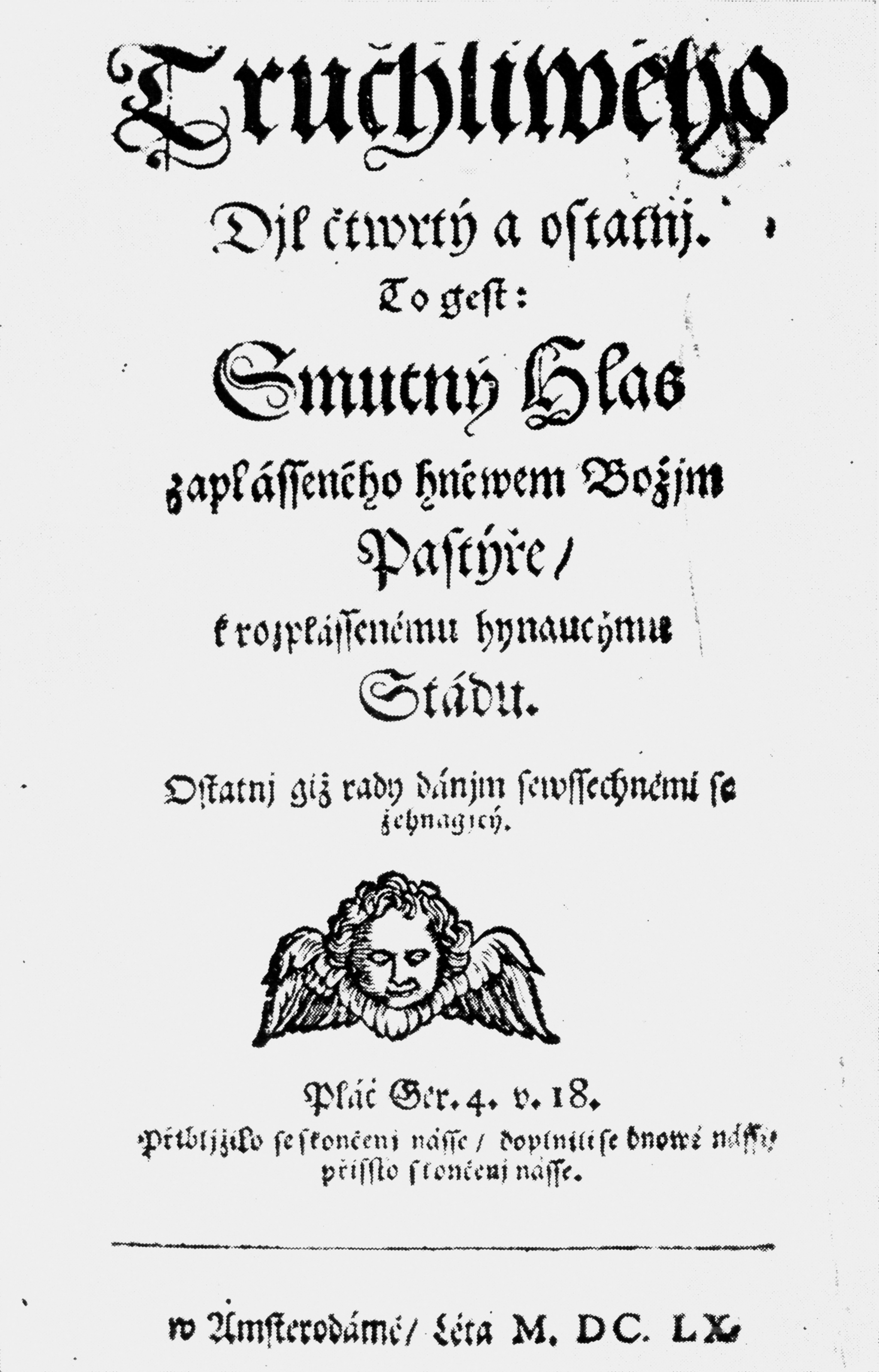 John Amos Comenius: Truchlivý, part IV (Smutný hlas). Cover of the first edition 1660, Amsterdam.